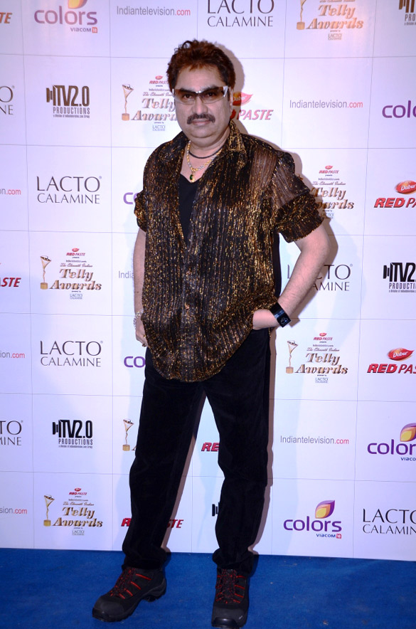 colors indian telly awards